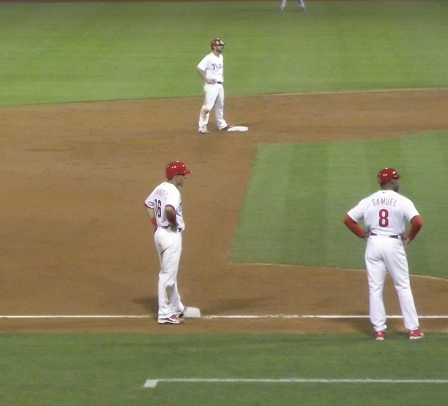 Cesar Hernandez stands on third base receiving instructions from third base coach Juan Samuel; meanwhile, Kevin Frandsen stands on second base in the background